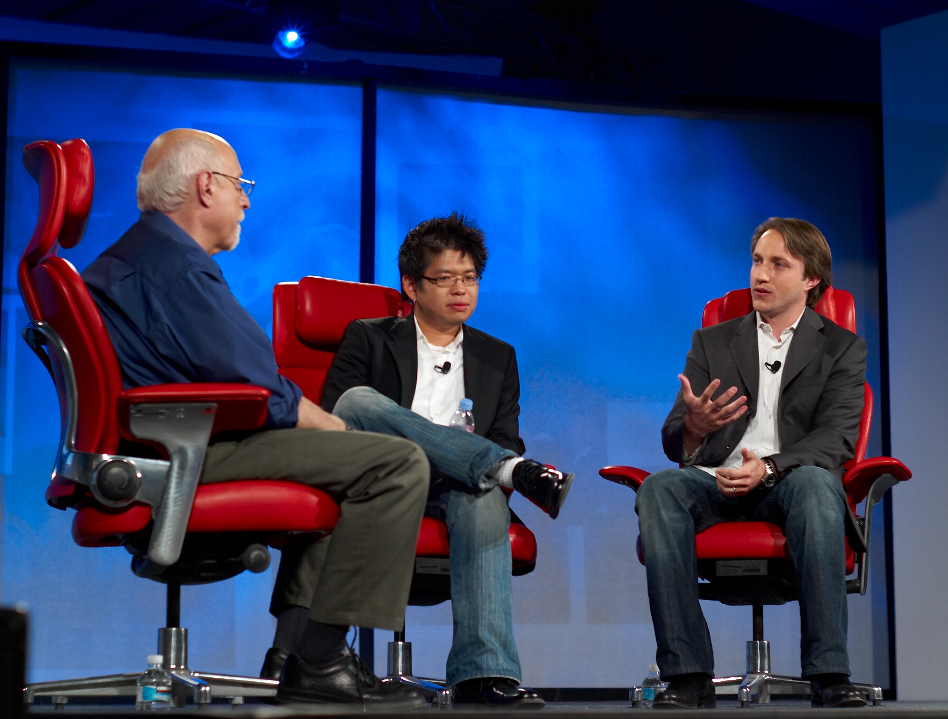 Walt Mossberg, Steve Chen and Chad Hurley at All Things Digital 5.